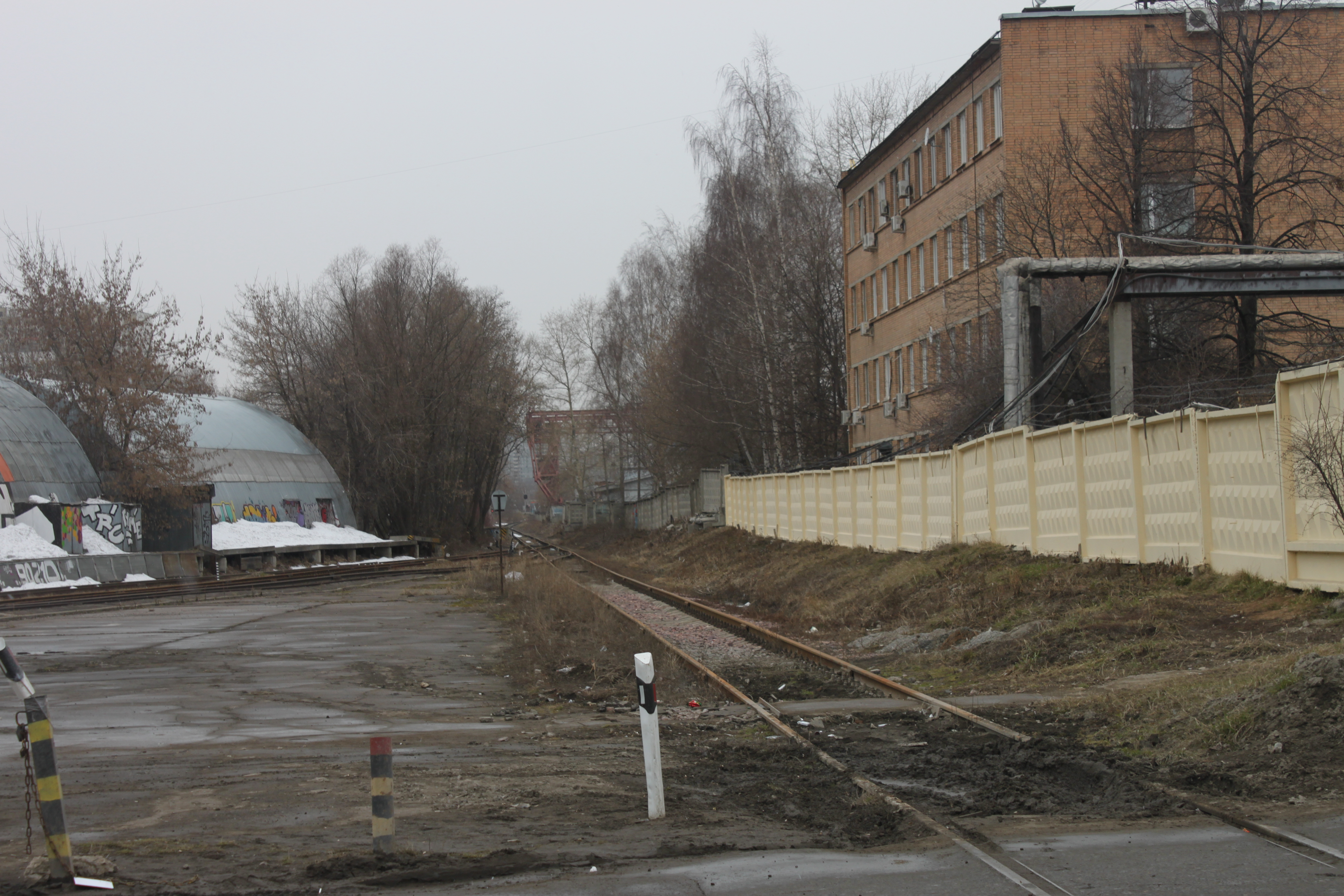 Molodtsova Street, Moscow, Russia.